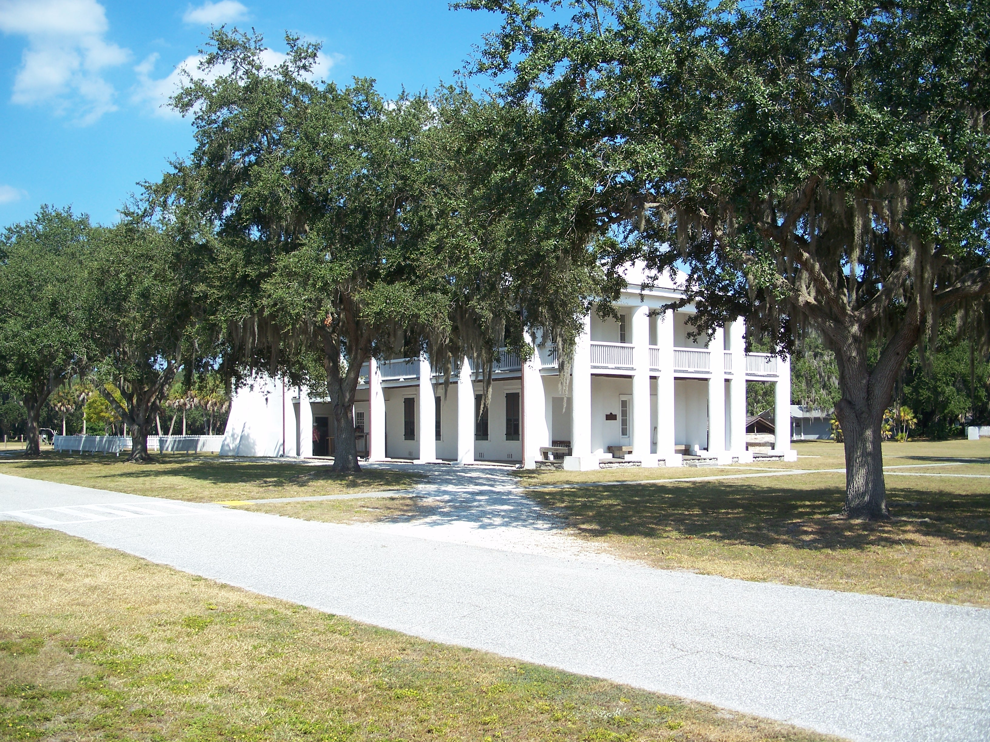 Gamble Plantation Historic State Park